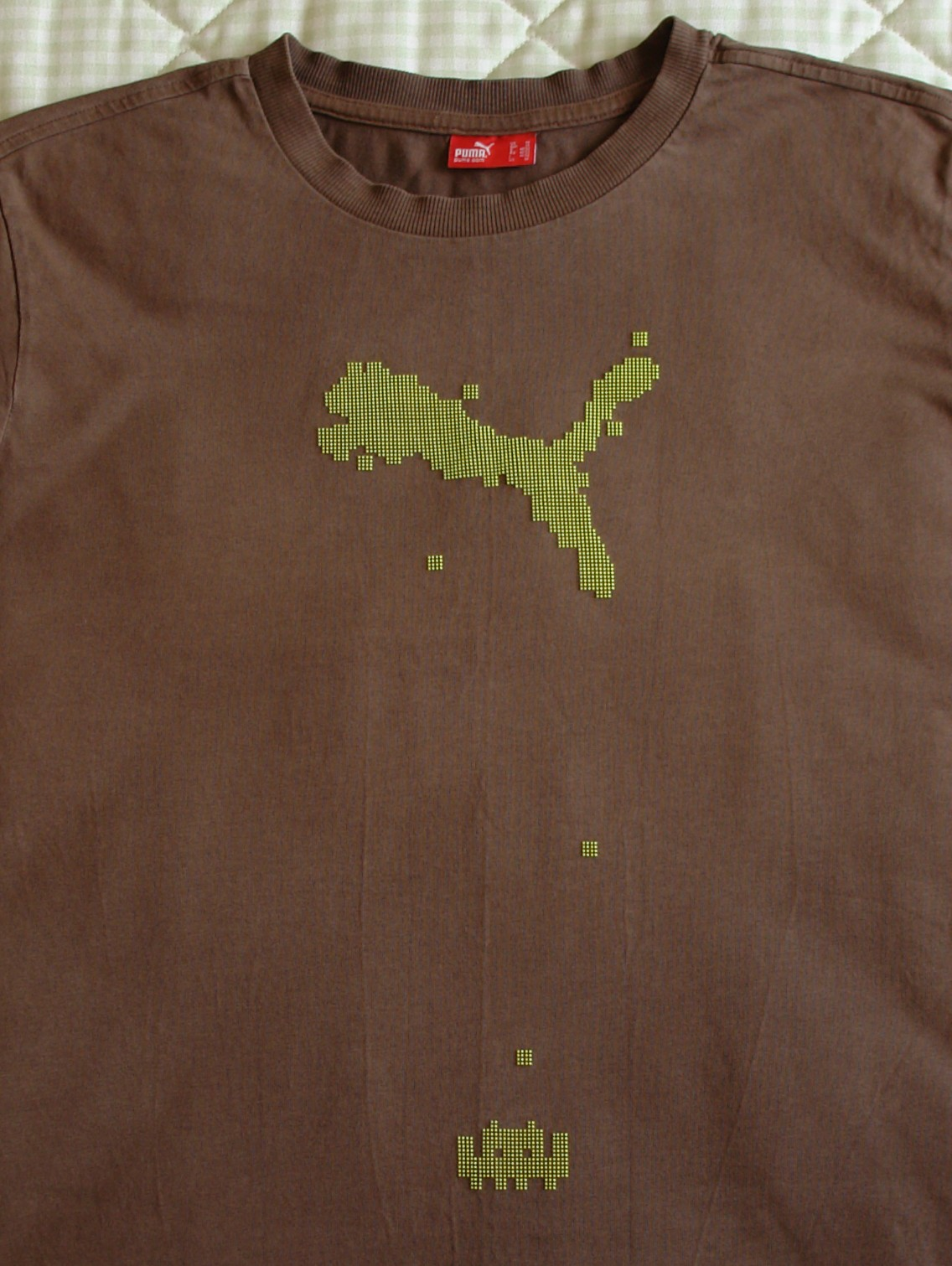 Πρόκειται για ένα μπλουζάκι που αγοράστηκε στα μέσα της δεκαετίας του 90 στην πόλη της Αλεξάνδρειας, κοντά στη Βέροια. Εμφανίζει ένα διαστημόπλοιο που στοχεύει στο λογότυπο της Puma έχοντας αναφορές στο βιντεοπαιχνίδι «Space Invaders». This is a T-shirt bought in the mid 90s in the town of Alexandria, near Veroia, Greece. It depicts a spaceship aiming at the Puma logo with clear references to the arcade videogame "Space Invaders".